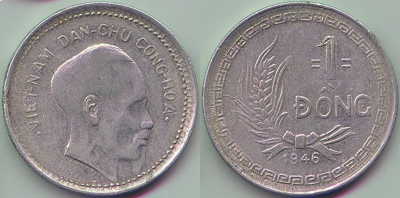 North Vietnam 1 Dong 1946 aluminum, KM#3